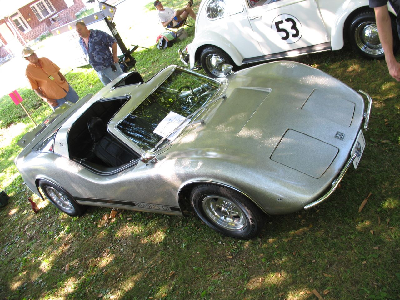 I'm not sure if this is another kit car like the Sterling but I'm sure someone will tell me what it is. It's a Bradley GT kit car. written on the side, checked on google --Jollyroger 12:10, 27 September 2007 (UTC)